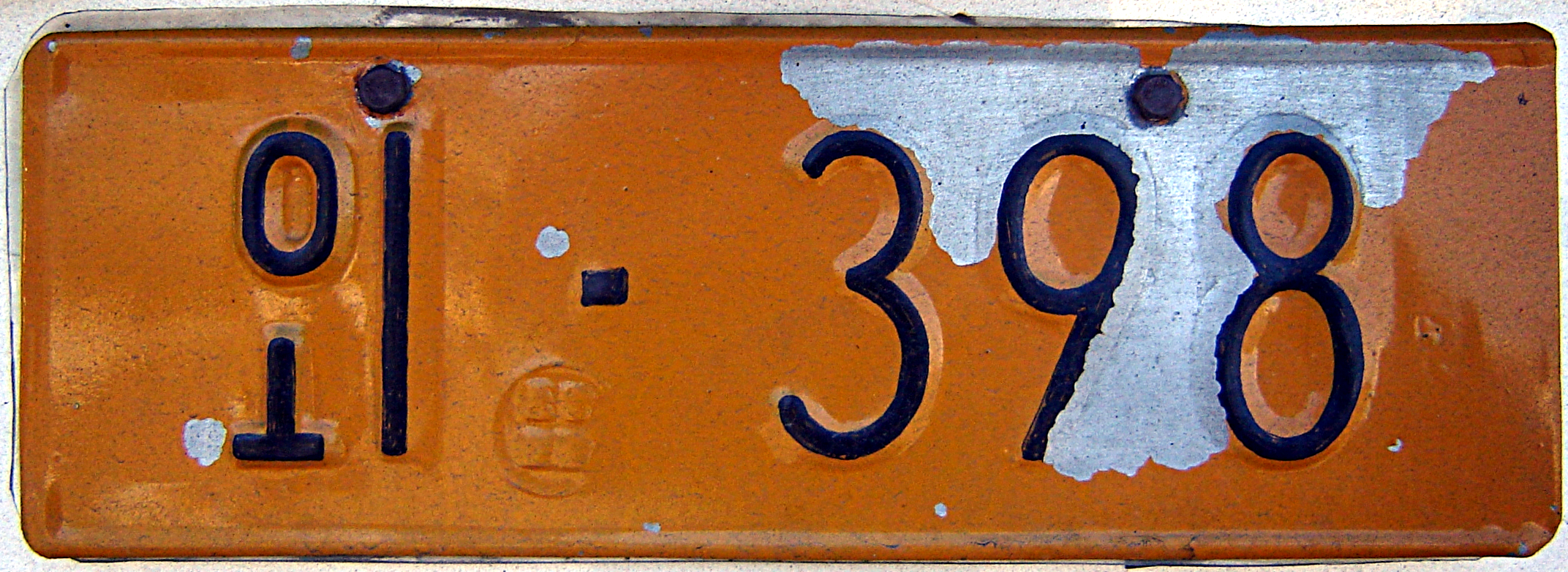 Licence plates from North Korea for private vehicles owned by foreigners, yellow: Private, 외: Foreigner ("outside"), Photo taken in Pyongyang, North Korea